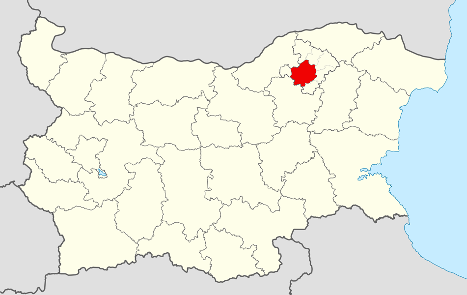 Location map of Razgrad Municipality within Bulgaria and Razgrad Province. Equirectangular projection, N/S stretching 130 %. Geographic limits of the map: N: 44.4° N S: 41.1° N W: 22.1° E E: 28.9° E